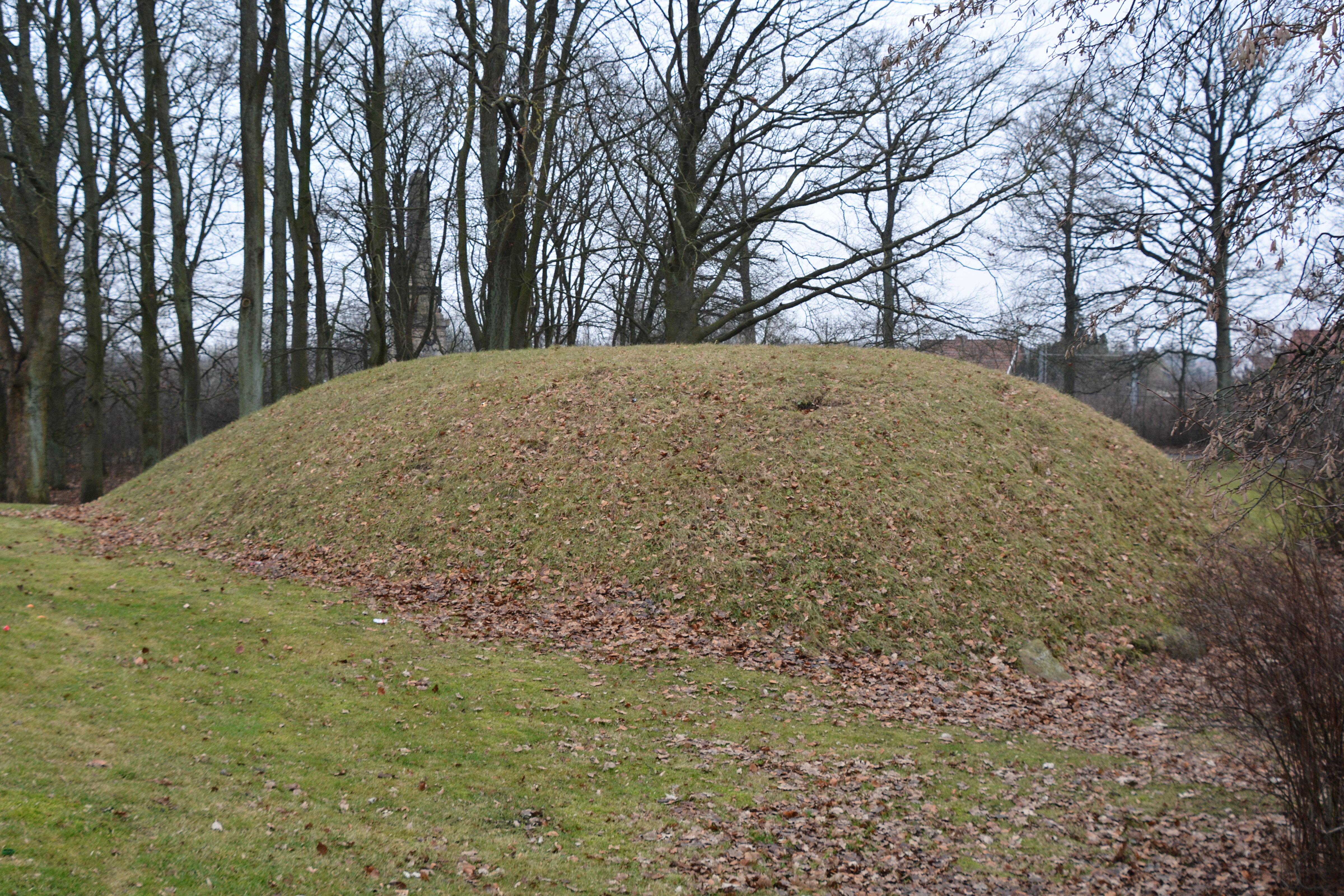 Lerbäckshög